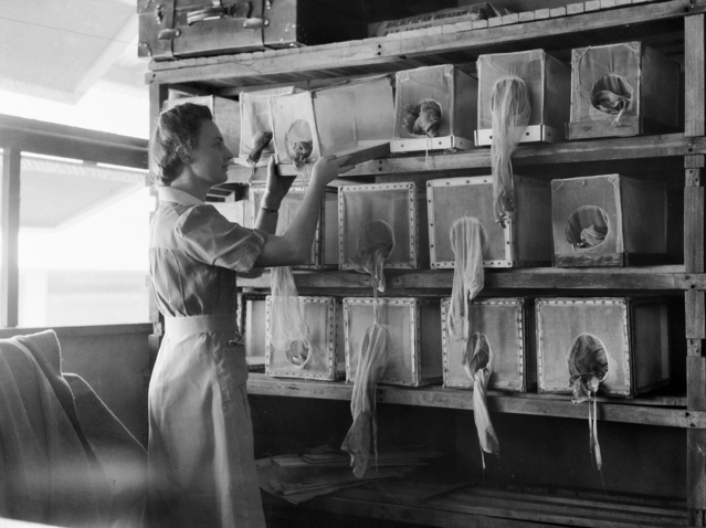 Medical Research Unit in Cairns where volunteers from the Australian Army offer themselves for experiments in the fight against malaria. Private P. B. Johnson QFX61122 replaces adult mosquito cages in racks after the mosquitoes have been infected with malaria and removed for microscopic examination.